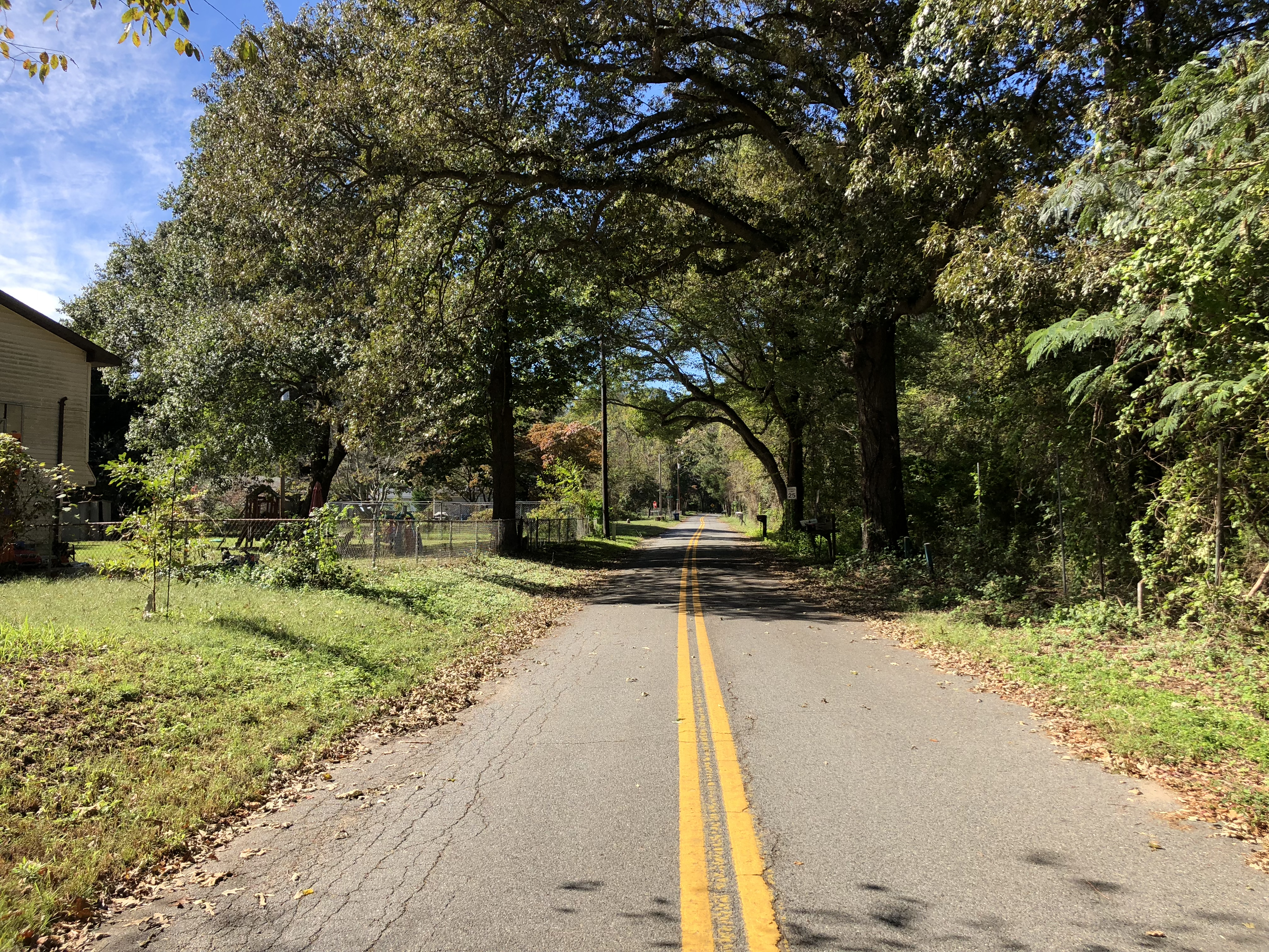 View southwest along Trueman Point Road at Patuxent Boulevard in Eagle Harbor, Prince George's County, Maryland